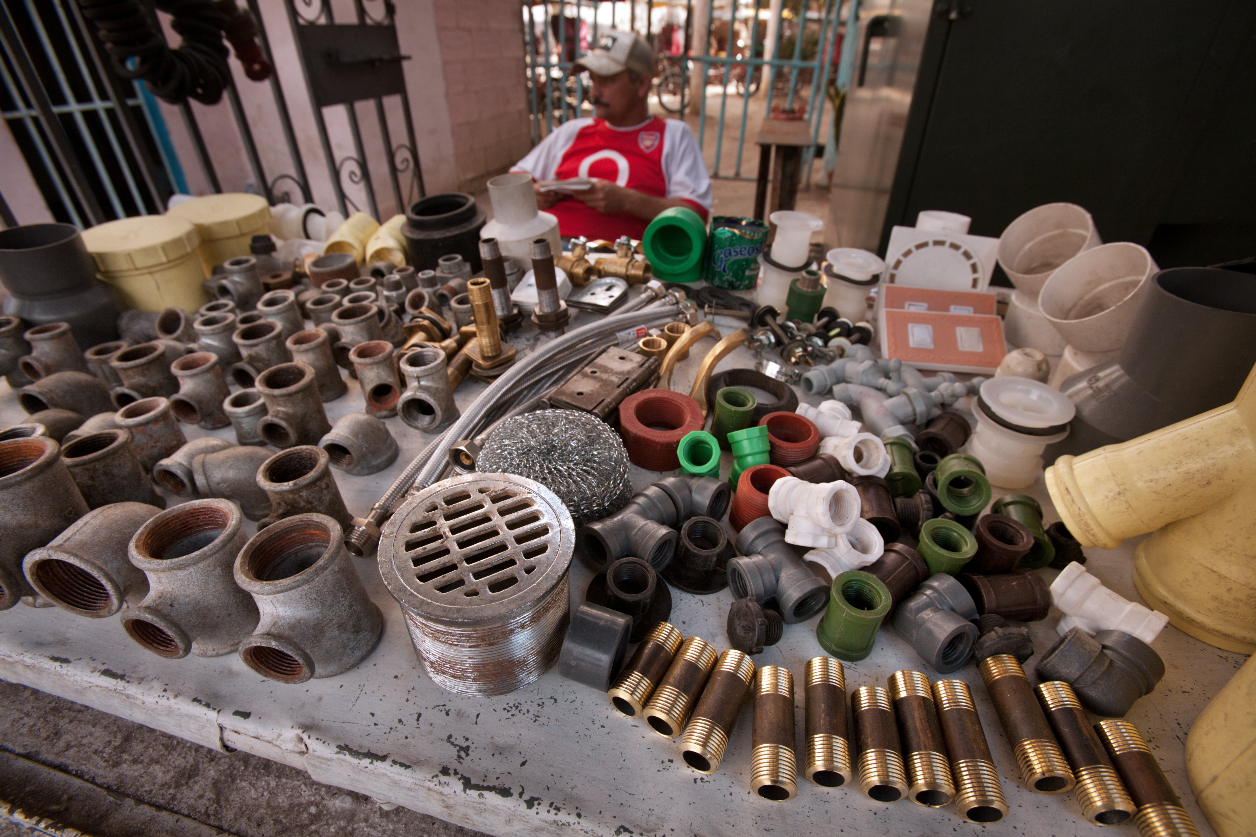 A hardware & plumbing street shop. Havana (La Habana), Cuba